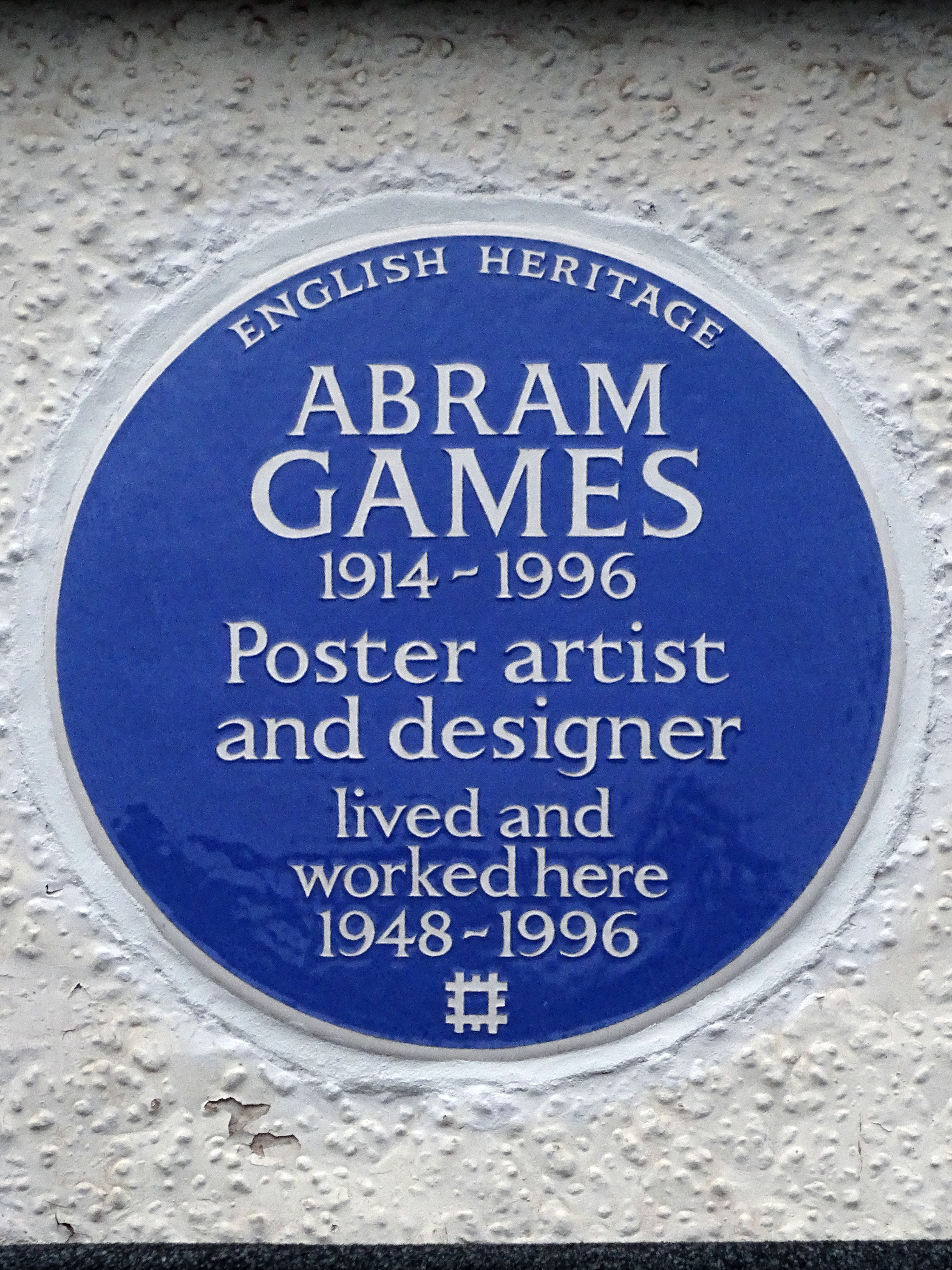 Blue plaque erected in 2019 by English Heritage at 41 The Vale, Golders Green, Barnet, NW11 8SE, London Borough of Barnet